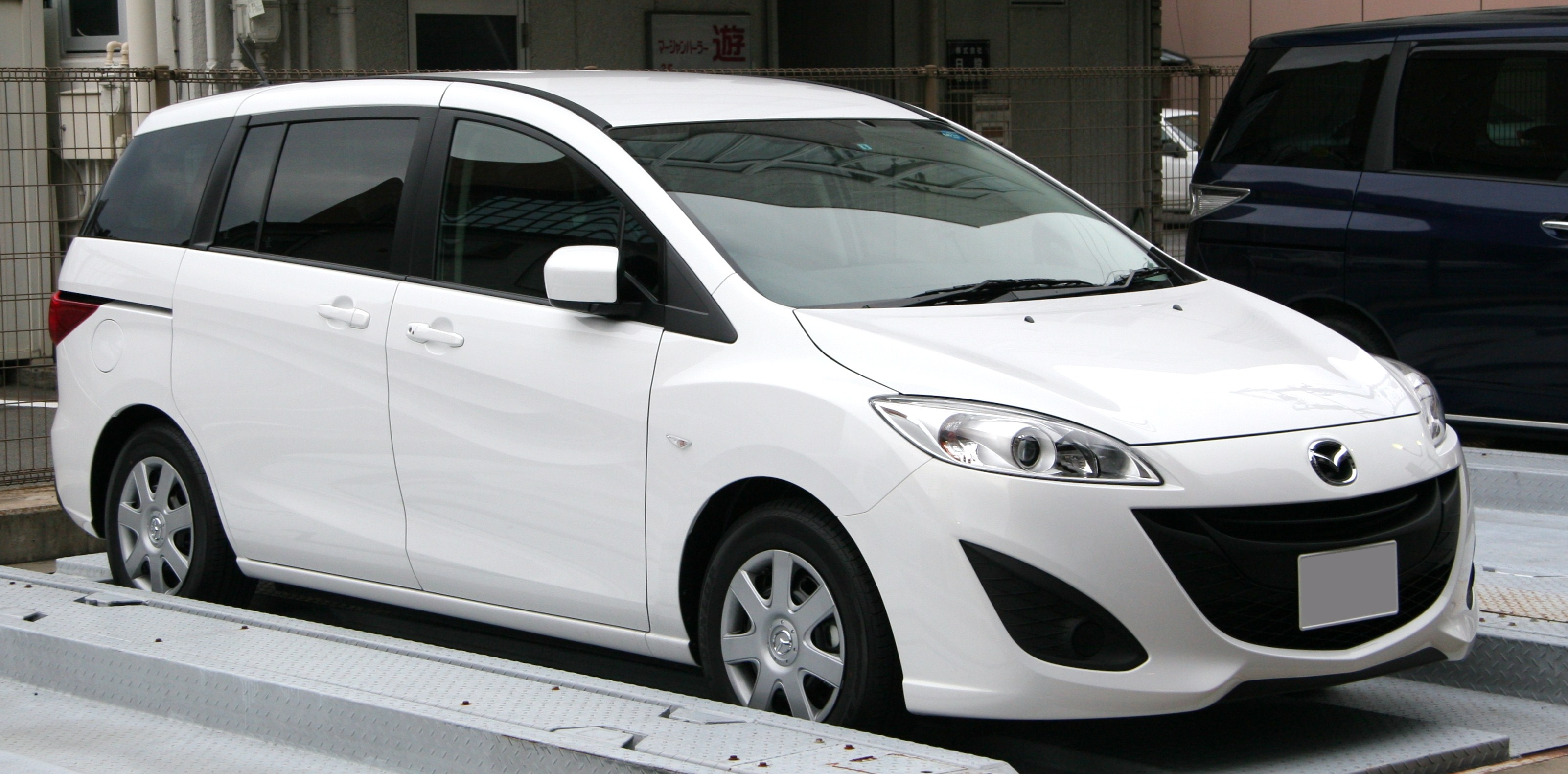 Mazda Premacy